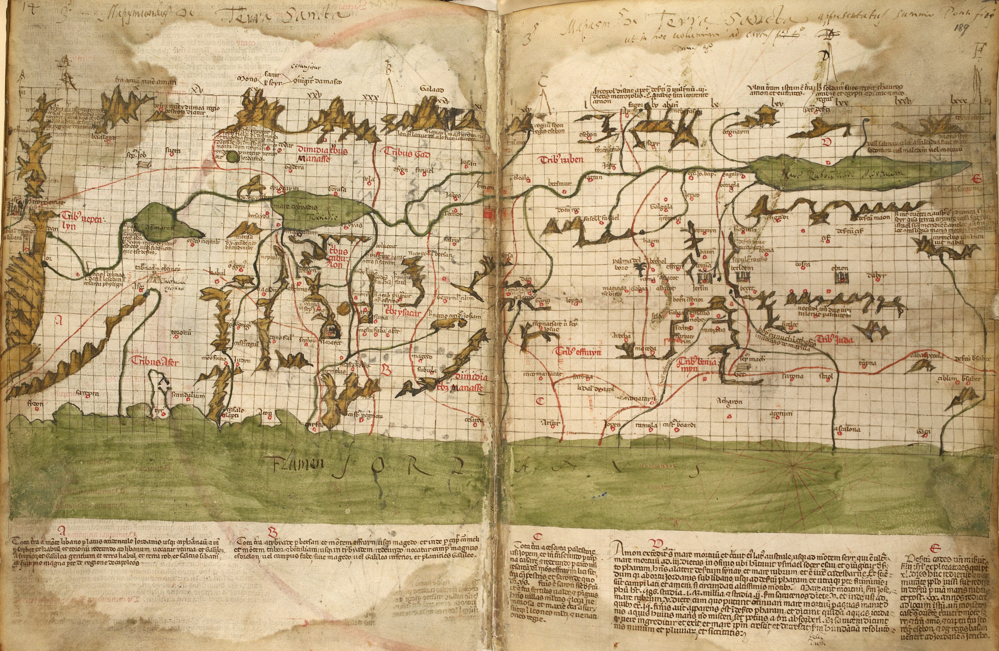 The map of the Holy Land by Marino Sanudo (drawn in 1320) Map orientation: north pointing leftLatin text at bottom:[1] A: Tota terra a monte Libano per latus occidentale Jordanis vsque Capharnaum et inde per Saphet et Kabul et Toronum redeundo ad Libanum vocatur Yturea et Galilea superior et Galilea gentium et terra Kabul et terra Rob et saltus Libani et fuit pro magna parte de regione Decapoleos B: Tota terra a Tyberiade per Betsan et montem Effraym vsque Magedo et inde per capud Carmeli et montem Tabor et Betuliam vsque in Tyberiadem redeundo vocatur campus magnus Esdrelon vel campus Fabe, siue Magedo, vel Galilea inferior et planicies Galilee C: Tota terra a Cesarea Palestine vsque Joppen et inde transeundo per Tampnacsare et redeundo per Caco vsque Cesaream dicitur mons Effraym, licet sit terra campestris, et Saron, de quo dicitur Ysai. Factus est Saron sicut desertum, et est terra fertilis valde et pinguis habens villas multas et loca nemorosa et maxime circa Arsur suntque ibi leones multi et venationes regie E: Desertum Cades, vnde miserant filii Israel exploratores , qui post XL dies huc redierunt et murmurante populo jussi sunt redire in desertum per viam maris rubri et post XXX annos redierunt ad locum istum, vnde moventes castra contra orientem circuierunt montem Seyr et terram Amon et capta terra Seon, regis Osebon, et Og, regis Basan, venerunt ad Jordanem contra Jerico